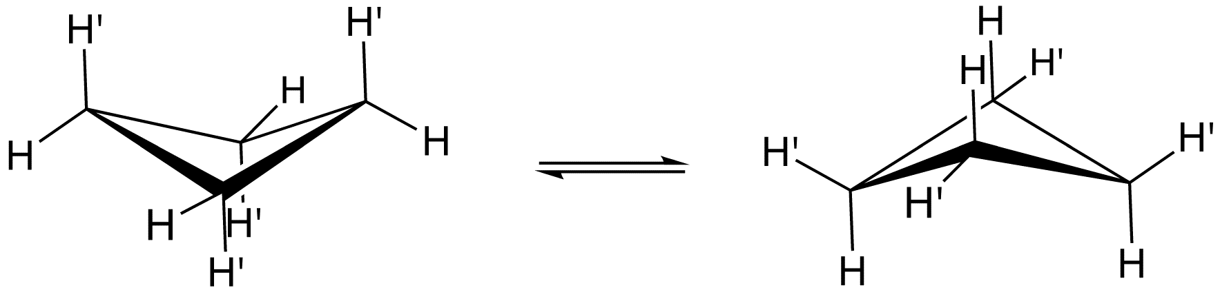 revised image of conformational equilibrium for cyclobutane